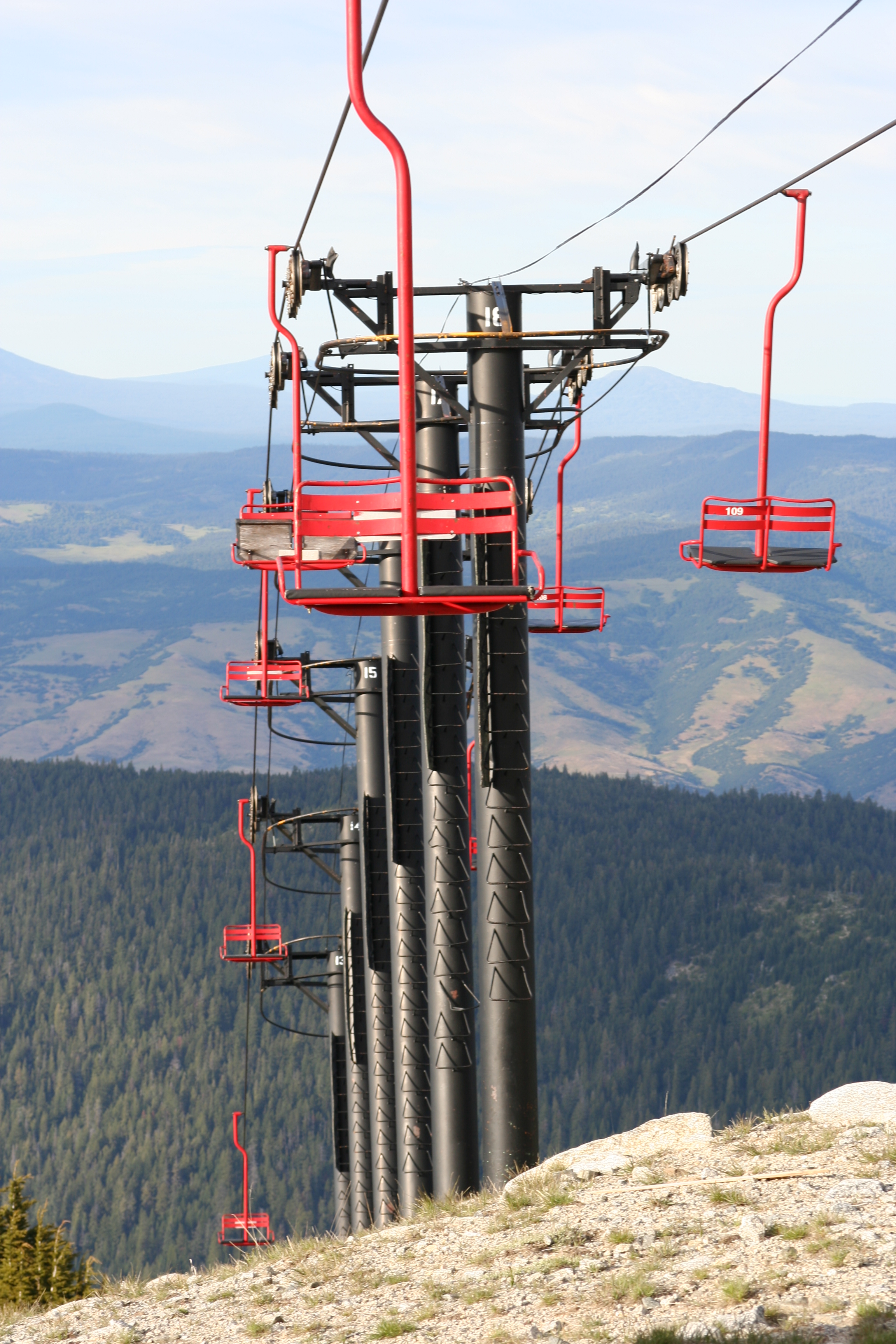 Mount Ashland chairlift in summer, ChildofMidnight photo please attribute